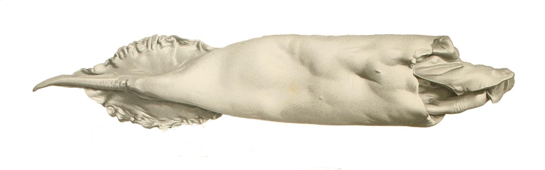 Architeuthis physeteris